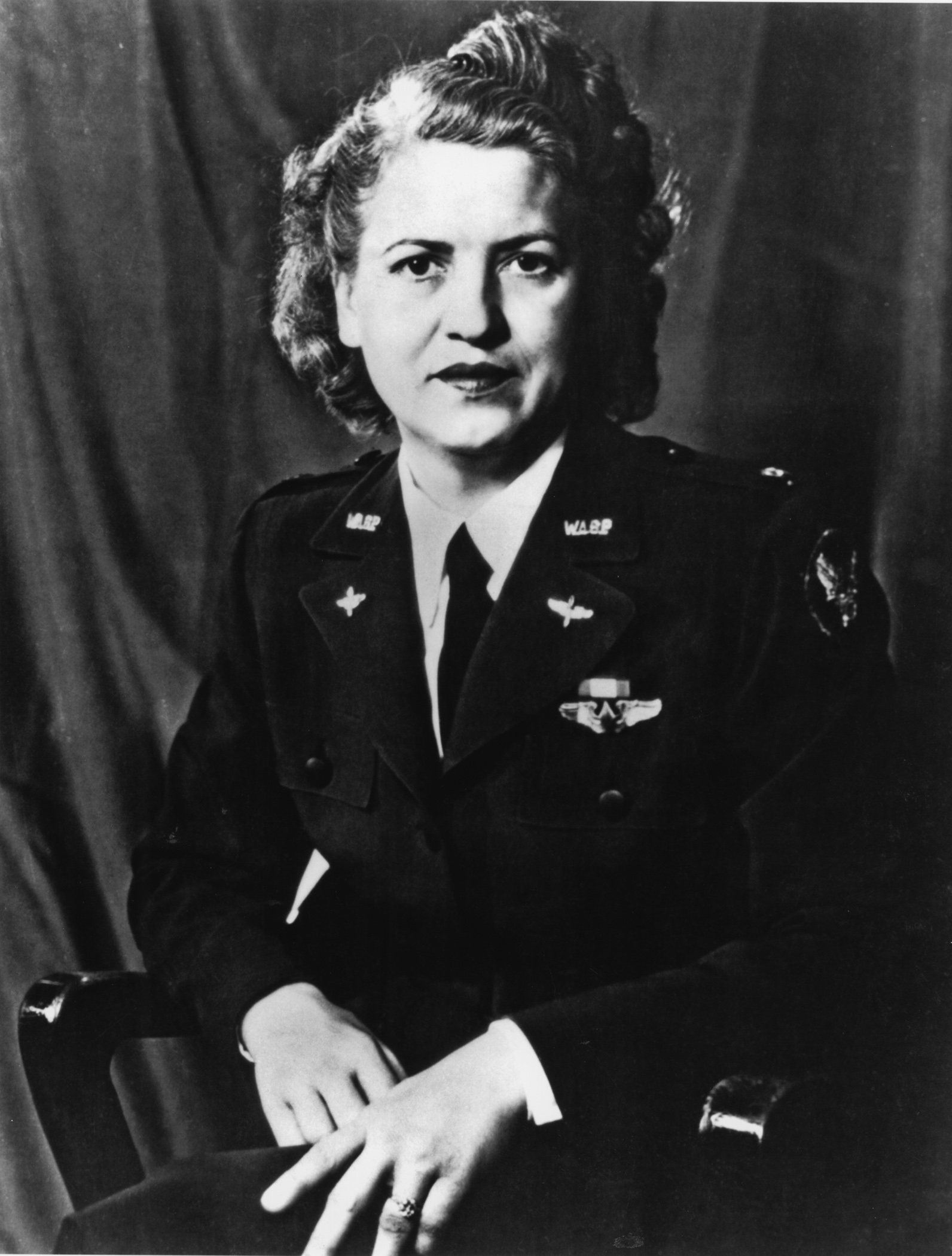 Jacqueline "Jackie" Cochran was a leading aviatrix who promoted an independent Air Force and was the director of women's flying training for the Women's Airforce Service Pilots program during World War II. She held more speed, altitude and distance records than any other male or female pilot in aviation history at the time of her death Aug. 10, 1980.